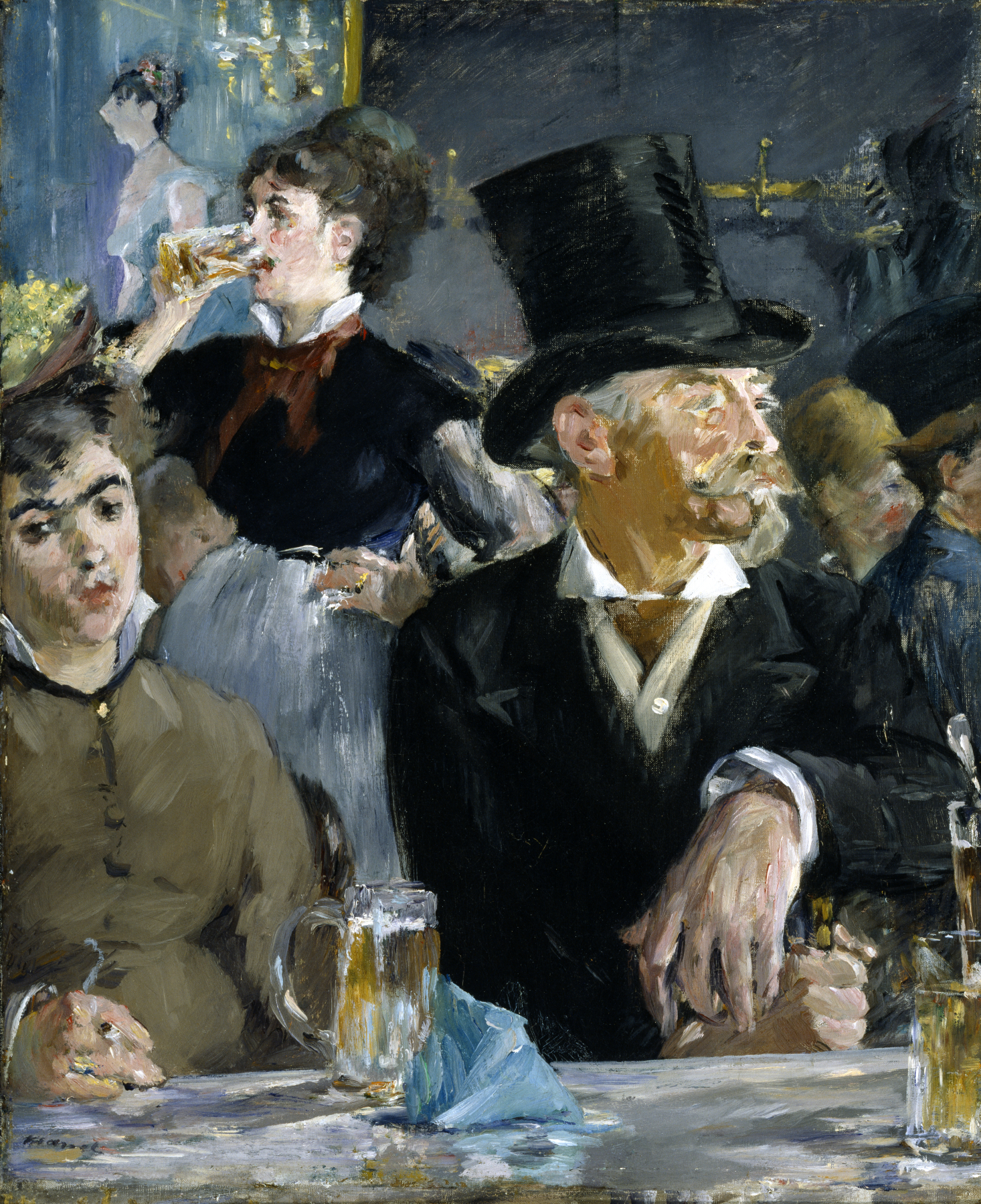 Manet was the quintessential "Painter of Modern Life," a phrase coined by art critic and poet Charles Baudelaire. In 1878-79, he painted a number of scenes set in the Cabaret de Reichshoffen on the Boulevard Rochechouart, where women on the fringes of society freely intermingled with well-heeled gentlemen. Here, Manet captures the kaleidoscopic pleasures of Parisian nightlife. The figures are crowded into the compact space of the canvas, each one seemingly oblivious of the others. When exhibited at La Vie Moderne gallery in 1880, this work was praised by some for its unflinching realism and criticized by others for its apparent crudeness.